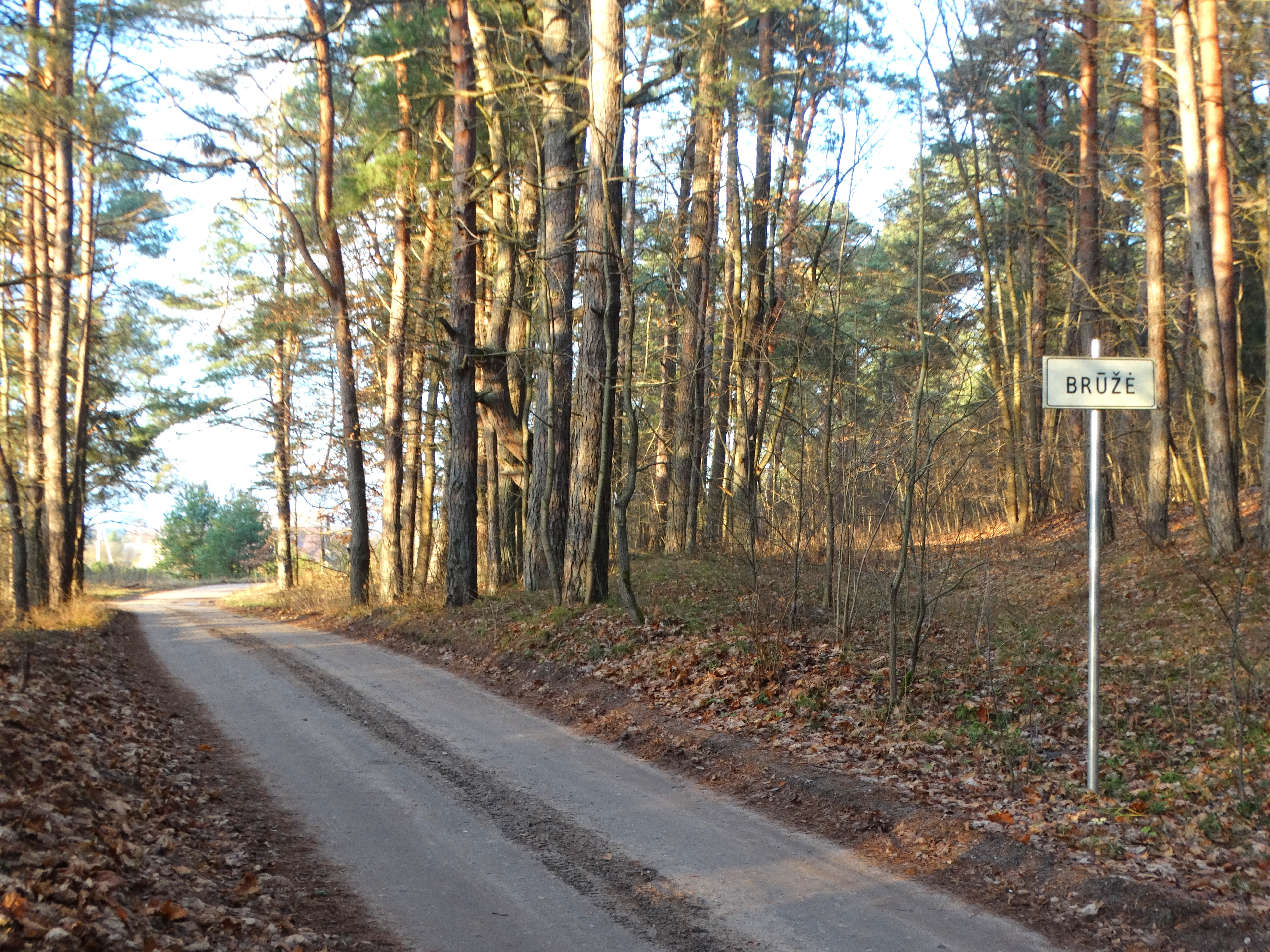 Brūžė, Kaunas District, Lithuania